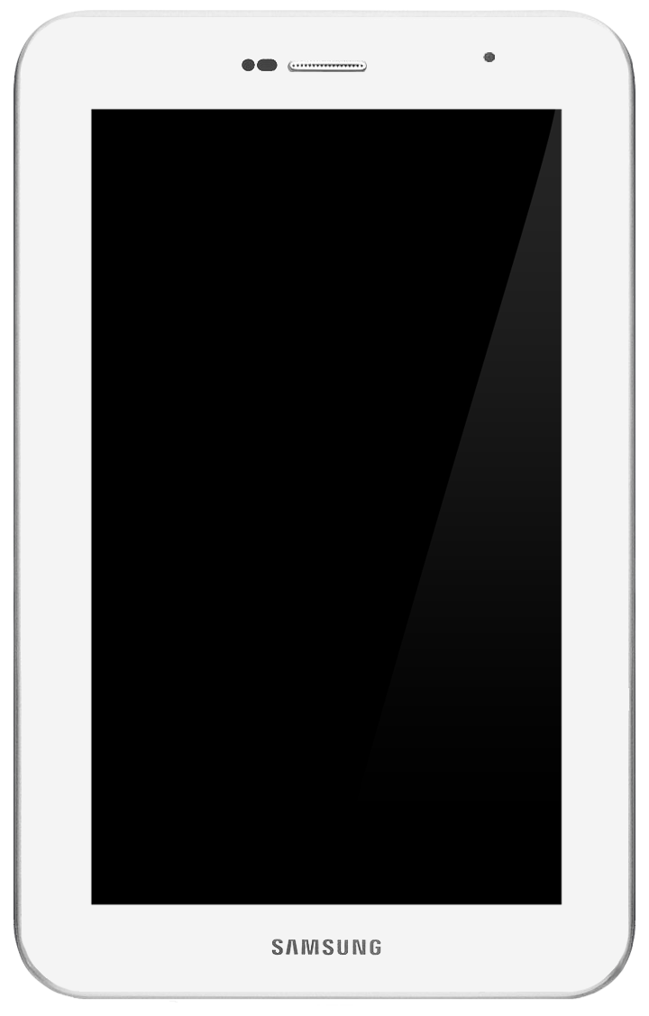 Samsung Galaxy Tab 7.0 Plus render